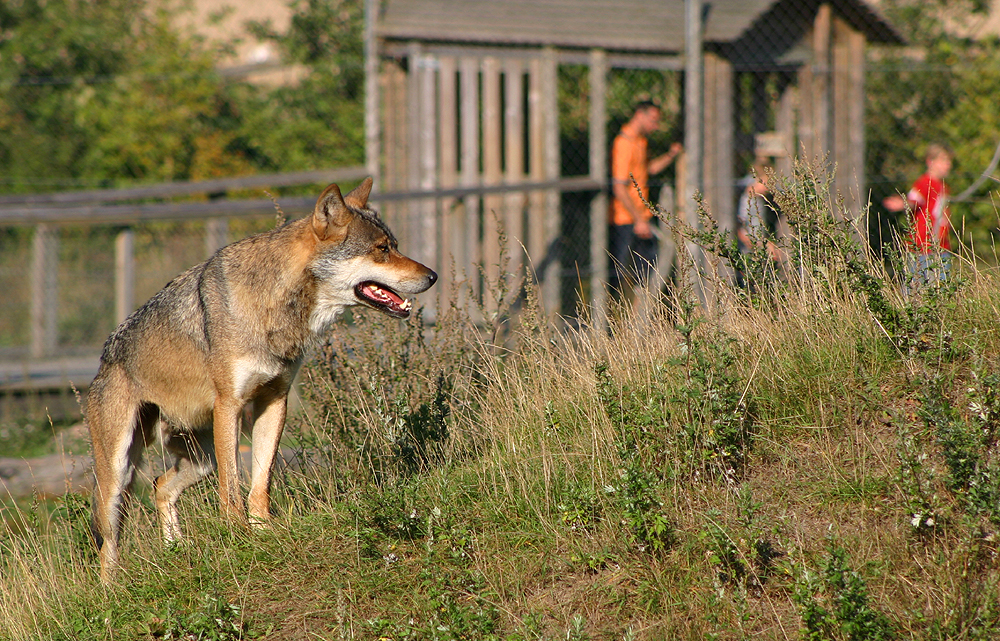 The wolf enclosure at Skandinavisk Dyrepark, Djursland, Denmark.